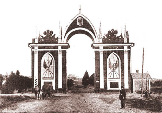 A photo of a triumphal arch in Kyiv, erected in 1857 in honour of Alexander II. Disassembled in 1890s.